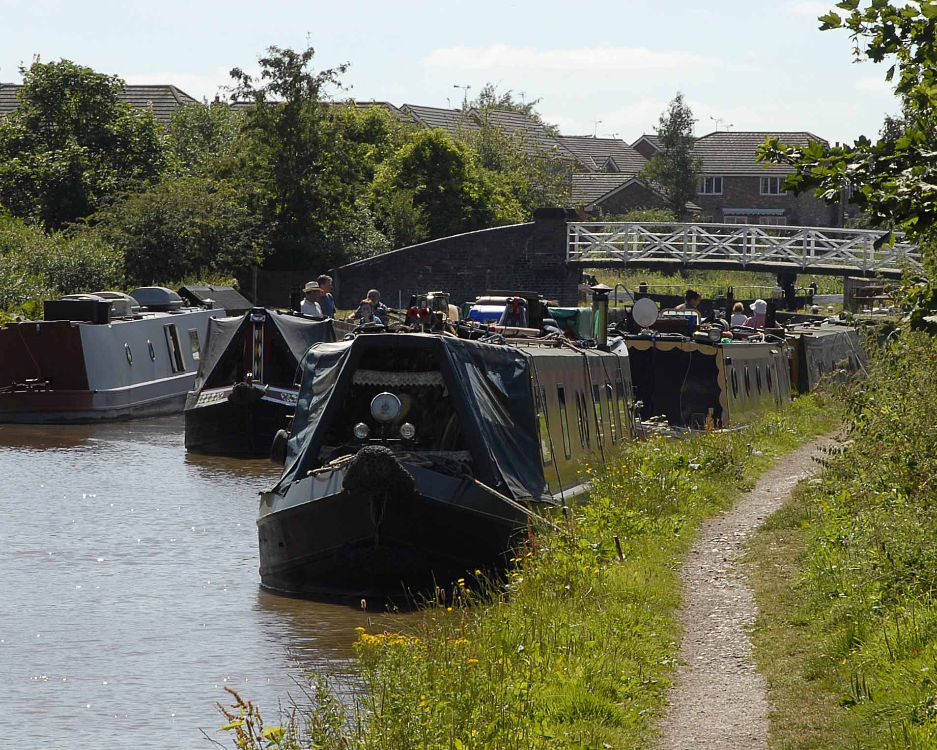 Photograph of Narrowboats just to the Northwich side of the Big Lock, Middlewich, Cheshire.